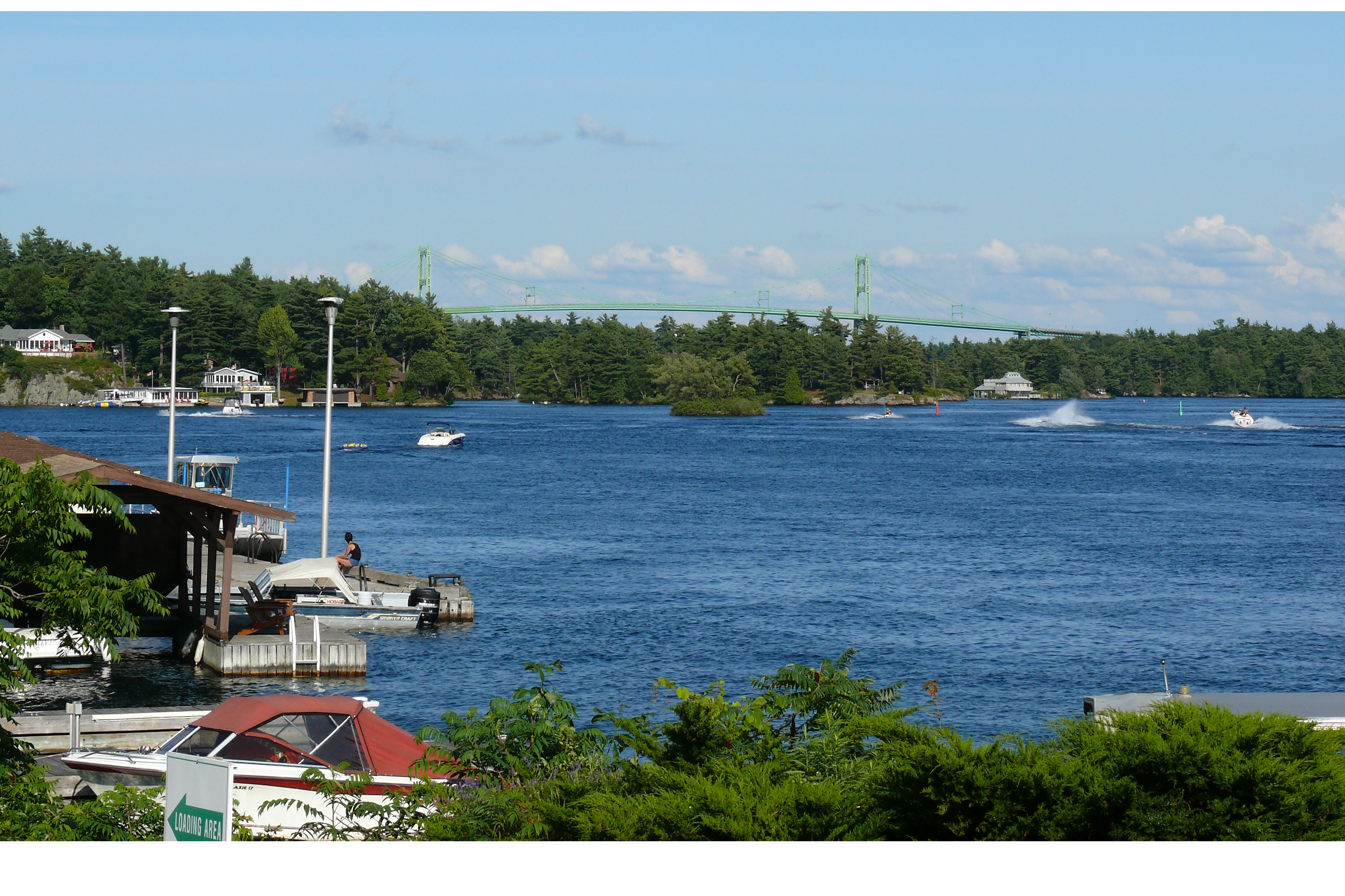 Candian part of the Thousand Islands Bridge, as seen from Ivy Lea (CAN). The bridge is an international bridge over the Saint Lawrence River connecting northern New York in the United States with southeastern Ontario in Canada in the Thousand Islands region.